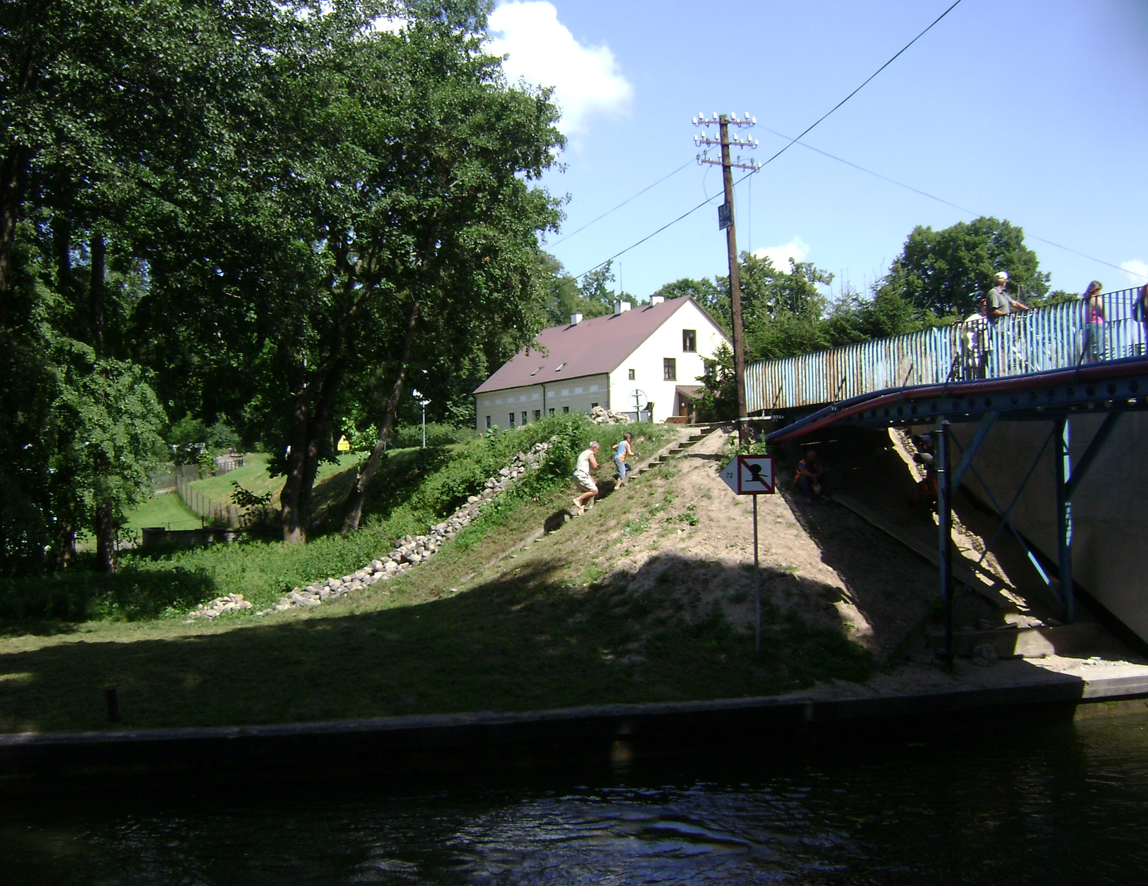 Poland. Gmina Ruciane-Nida. Guzianka